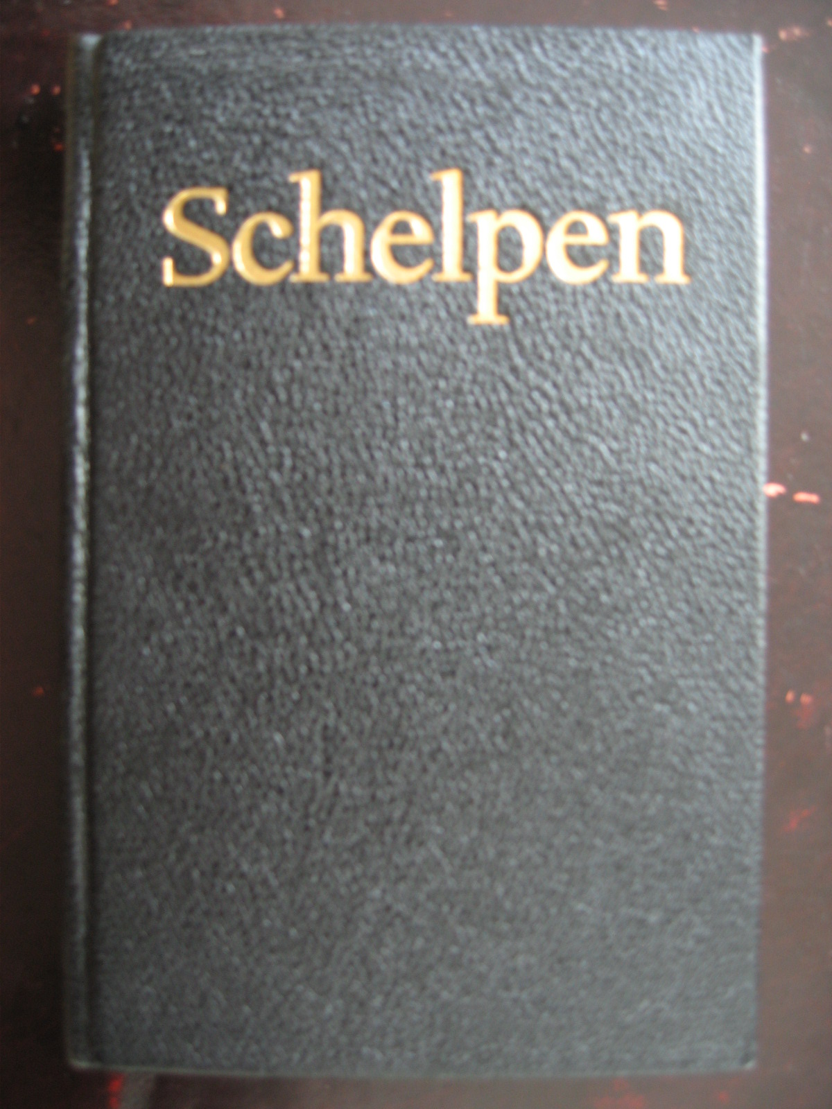 Book with 20 etchings of shells